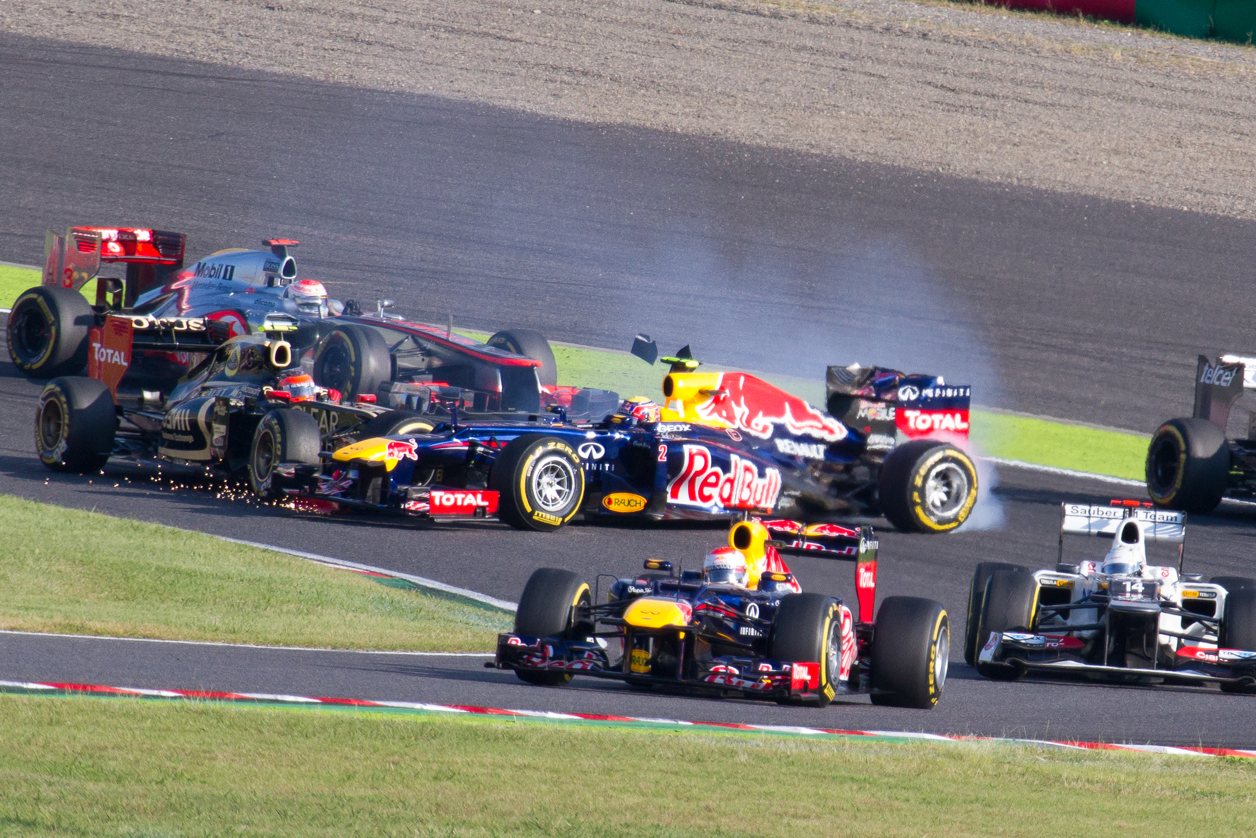 Formula One 2012 Rd.15 Japanese GP: opening lap. Romain Grosjean and Mark Webber crush.